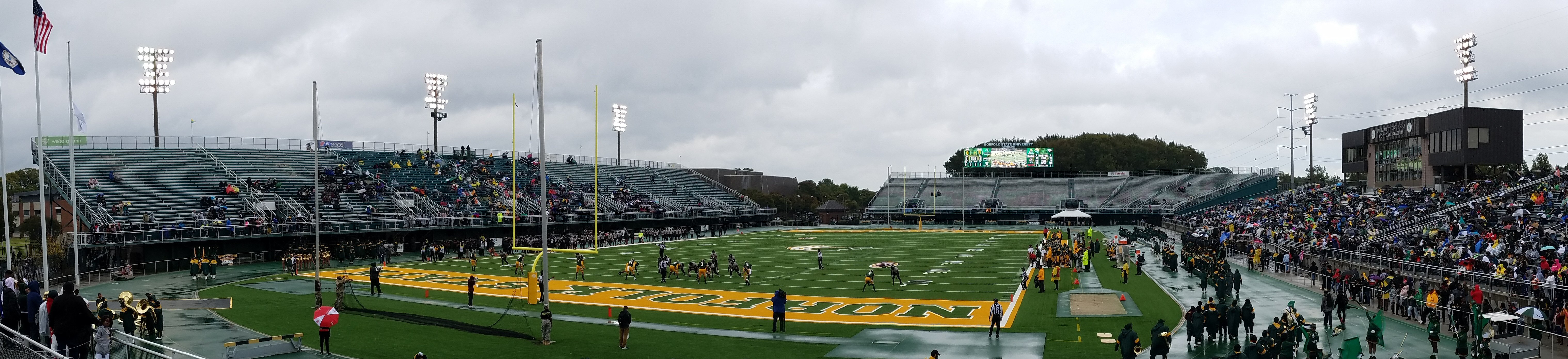 William "Dick Price" Stadium, home of the Norfolk State Spartans football team.